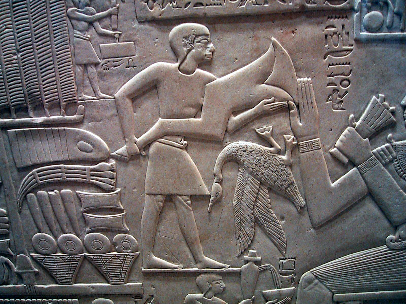 Abkaou receiving gifts. 11th dynasty